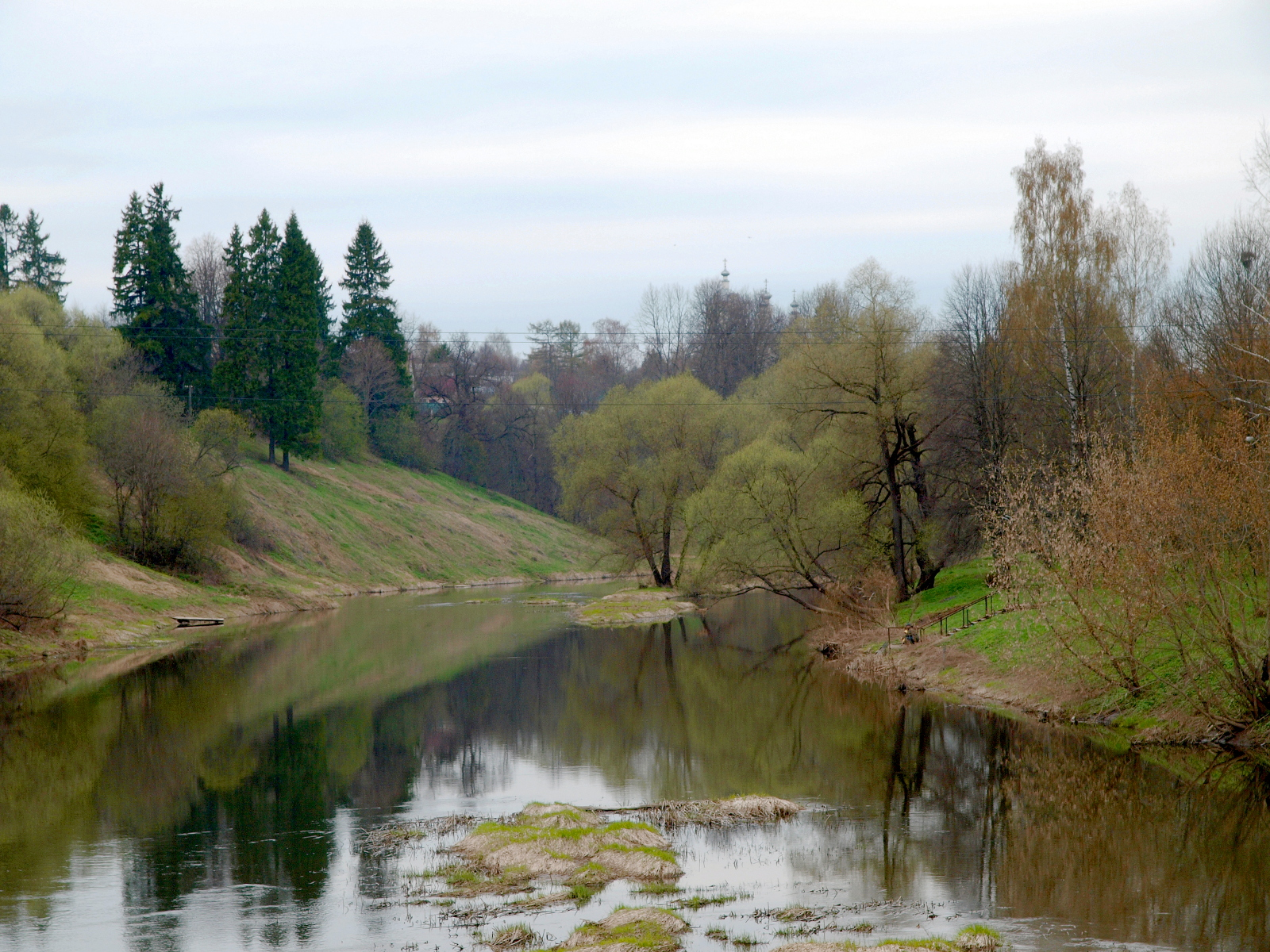 Protva River in Vereya in spring.